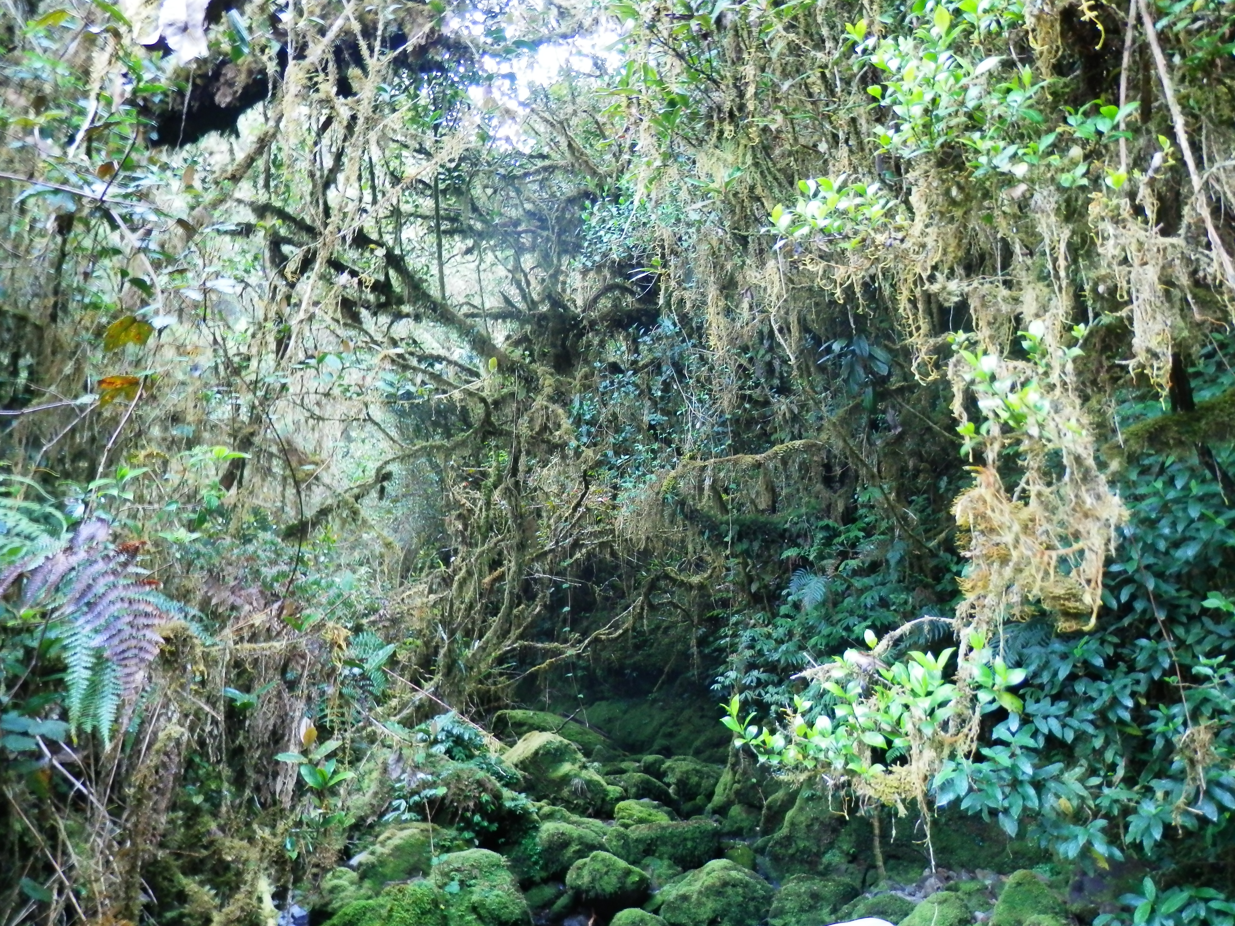 Mossy Forest of Mt. Pulag National Park